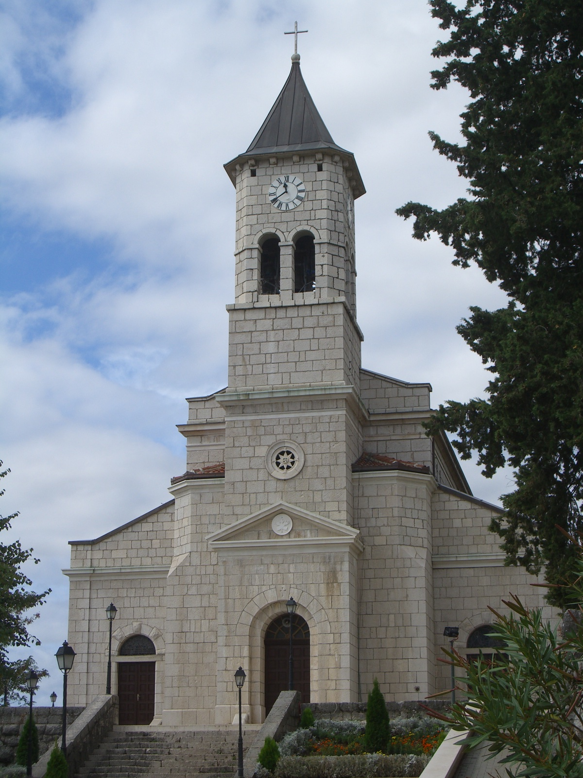 annunciation church, Vrgorac, Croatia